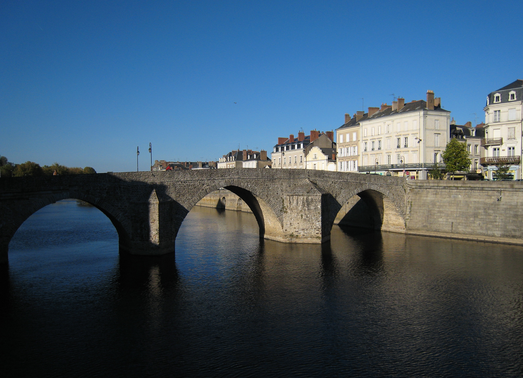 The Pont Vieux, oldest bridge of the city of Laval